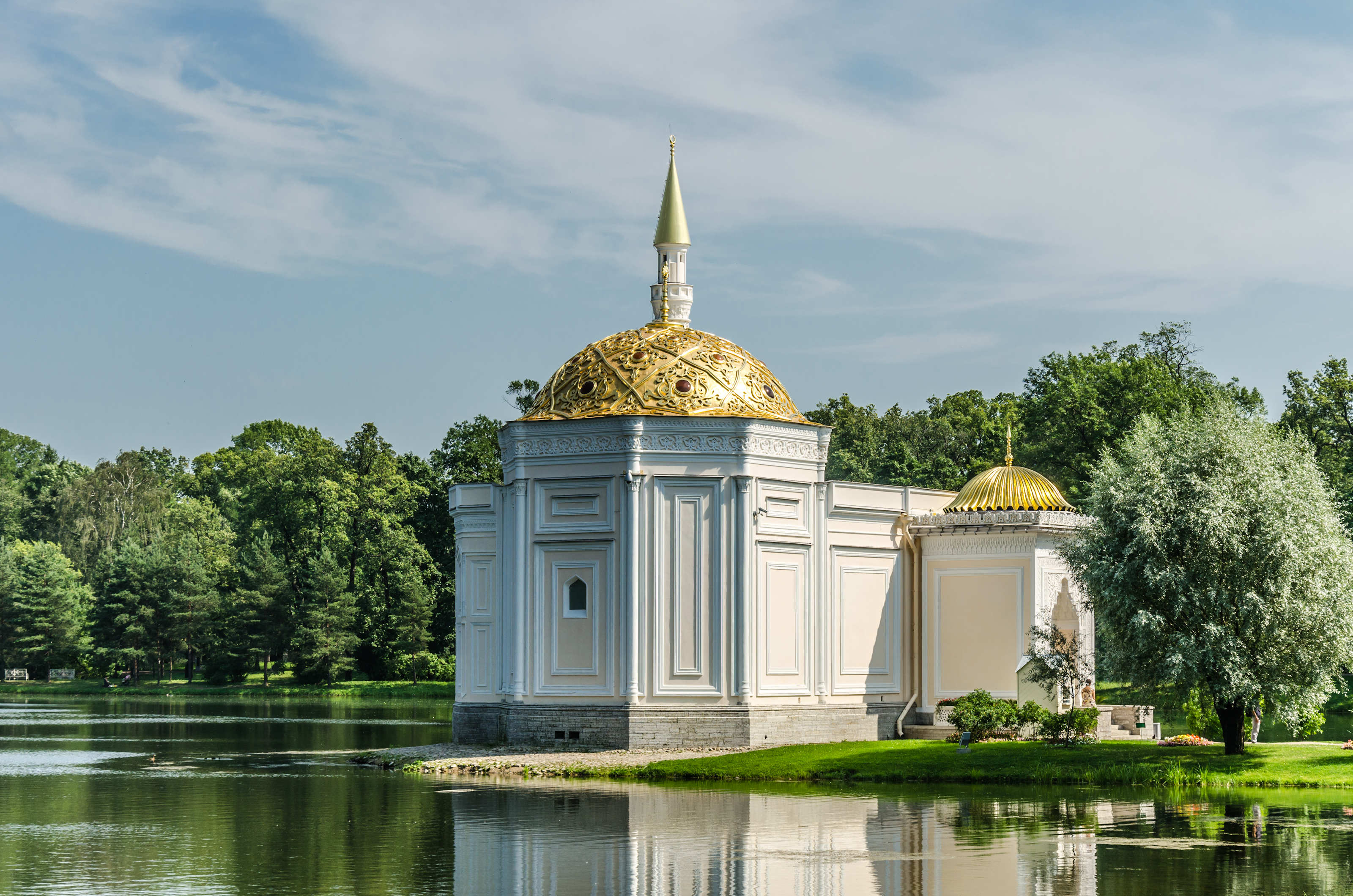 Turkish Bath in Catherine park of Tsarskoe Selo, Saint Petersburg